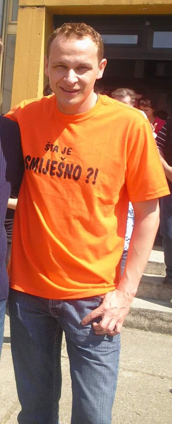 Enis Bešlagić, an actor and TV personality from Bosnia and Herzegovina